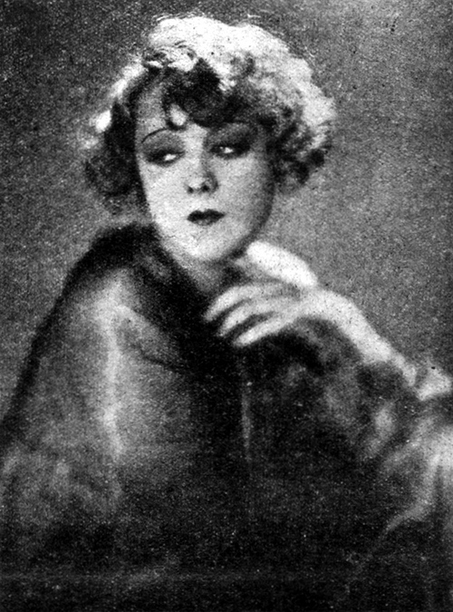 Anny Ondra (Anna Sophie Ondráková, 1903-1987) was Czech film actress.